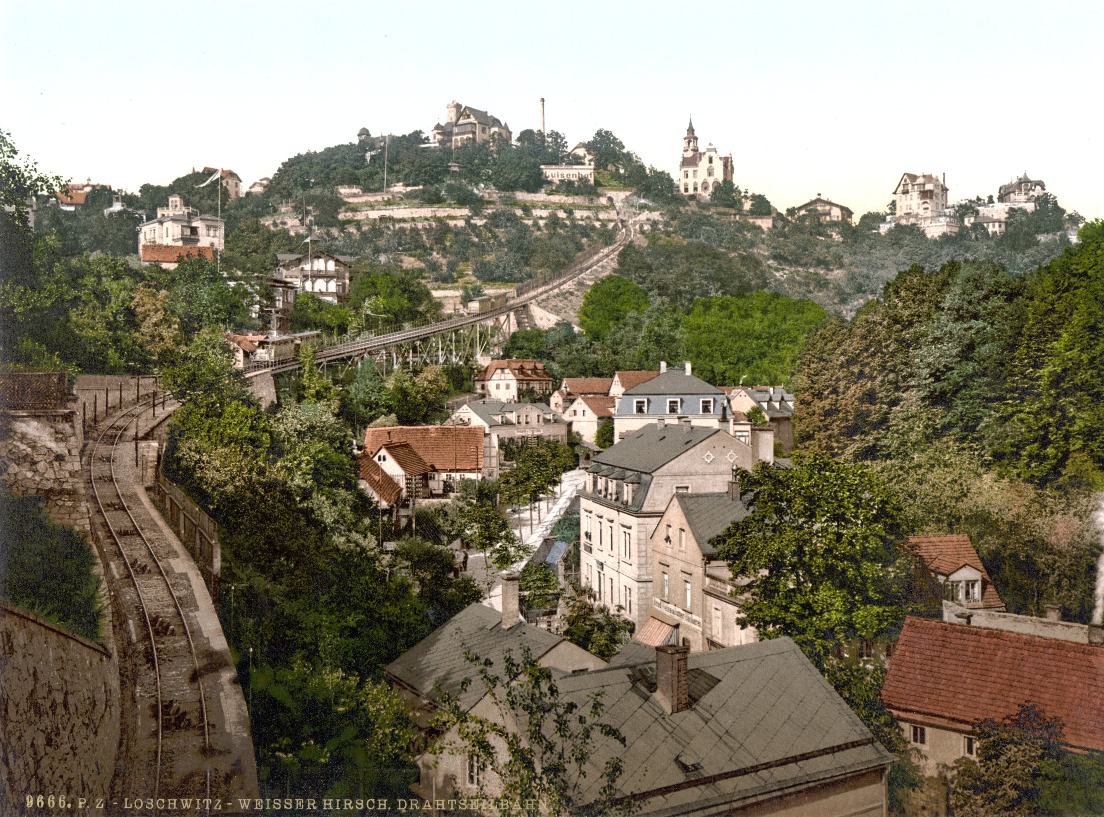 Loschwitz near Dresden (Saxony, Germany) - Funicular